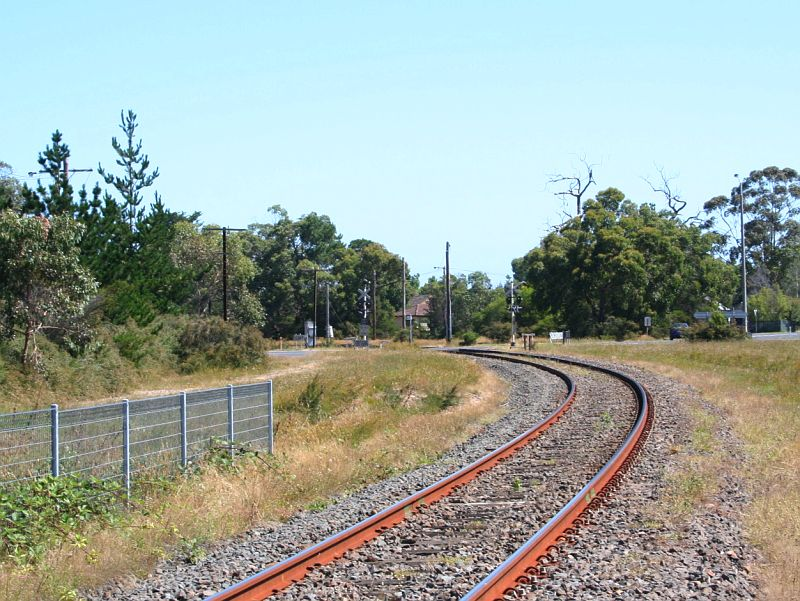 Stony Point line at Bittern, Victoria. December 2007